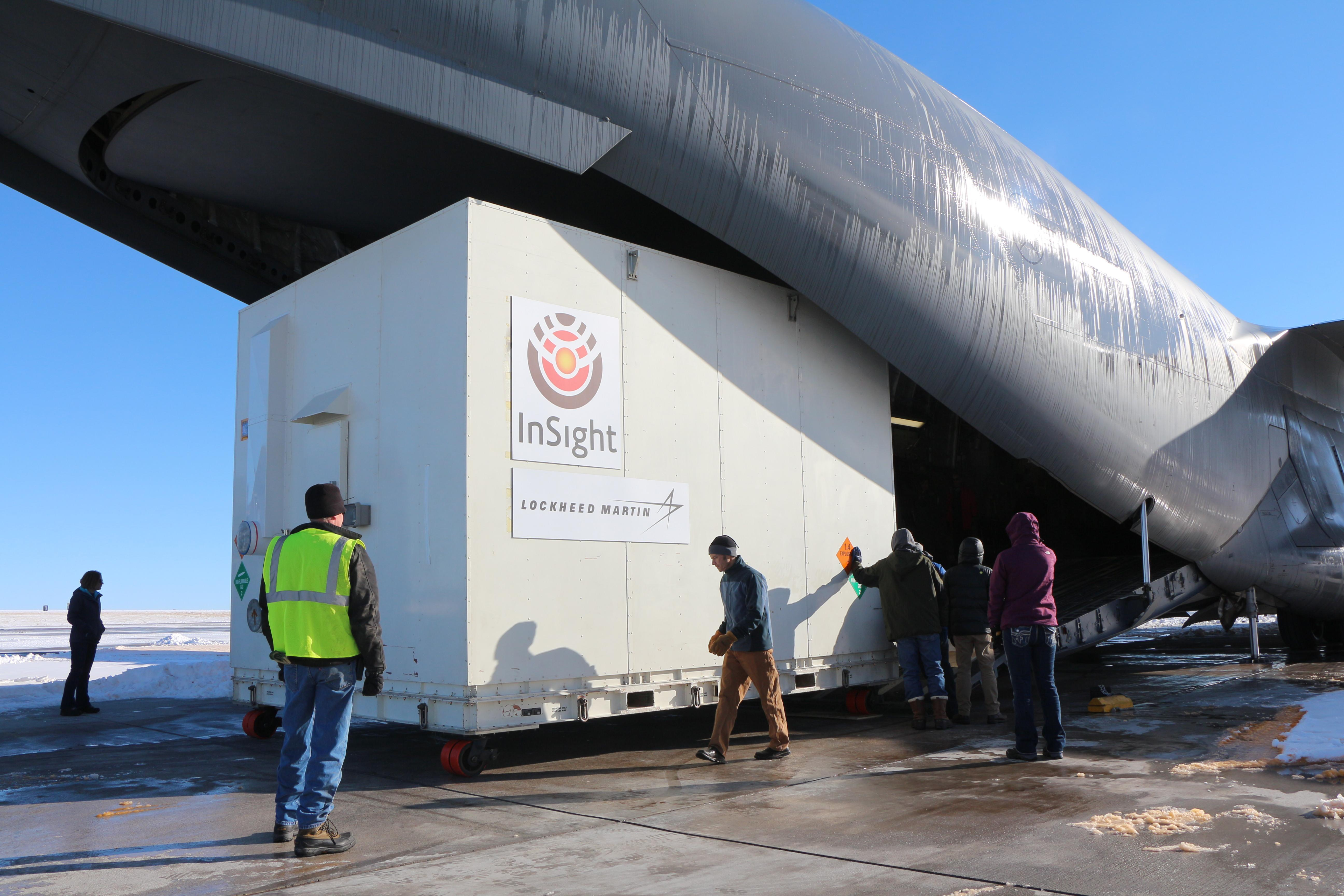 Caption with image Original Caption Released with Image: Personnel supporting NASA's InSight mission to Mars load the crated InSight spacecraft into a C-17 cargo aircraft at Buckley Air Force Base, Denver, for shipment to Vandenberg Air Force Base, California. The spacecraft, built in Colorado by Lockheed Martin Space Systems, was shipped Dec. 16, 2015, in preparation for launch from Vandenberg in March 2016. InSight, for Interior Exploration using Seismic Investigations, Geodesy and Heat Transport, is the first mission dedicated to studying the deep interior of Mars. Its findings will advance understanding of the early history of all rocky planets, including Earth. The InSight Project is managed by JPL, a division of the California Institute of Technology in Pasadena, for the NASA Science Mission Directorate, Washington. InSight is part of NASA's Discovery Program, which is managed by NASA's Marshall Space Flight Center in Huntsville, Alabama. For more information about InSight, visit Additional information on the Discovery Program is available at Photojournal Note: After thorough examination, NASA managers have decided to suspend the planned March 2016 launch of the Interior Exploration using Seismic Investigations Geodesy and Heat Transport (InSight) mission. The decision follows unsuccessful attempts to repair a leak in a section of the prime instrument in the science payload. Image Credit: NASA/JPL-Caltech/Lockheed Martin Image Addition Date: 2015-12-17